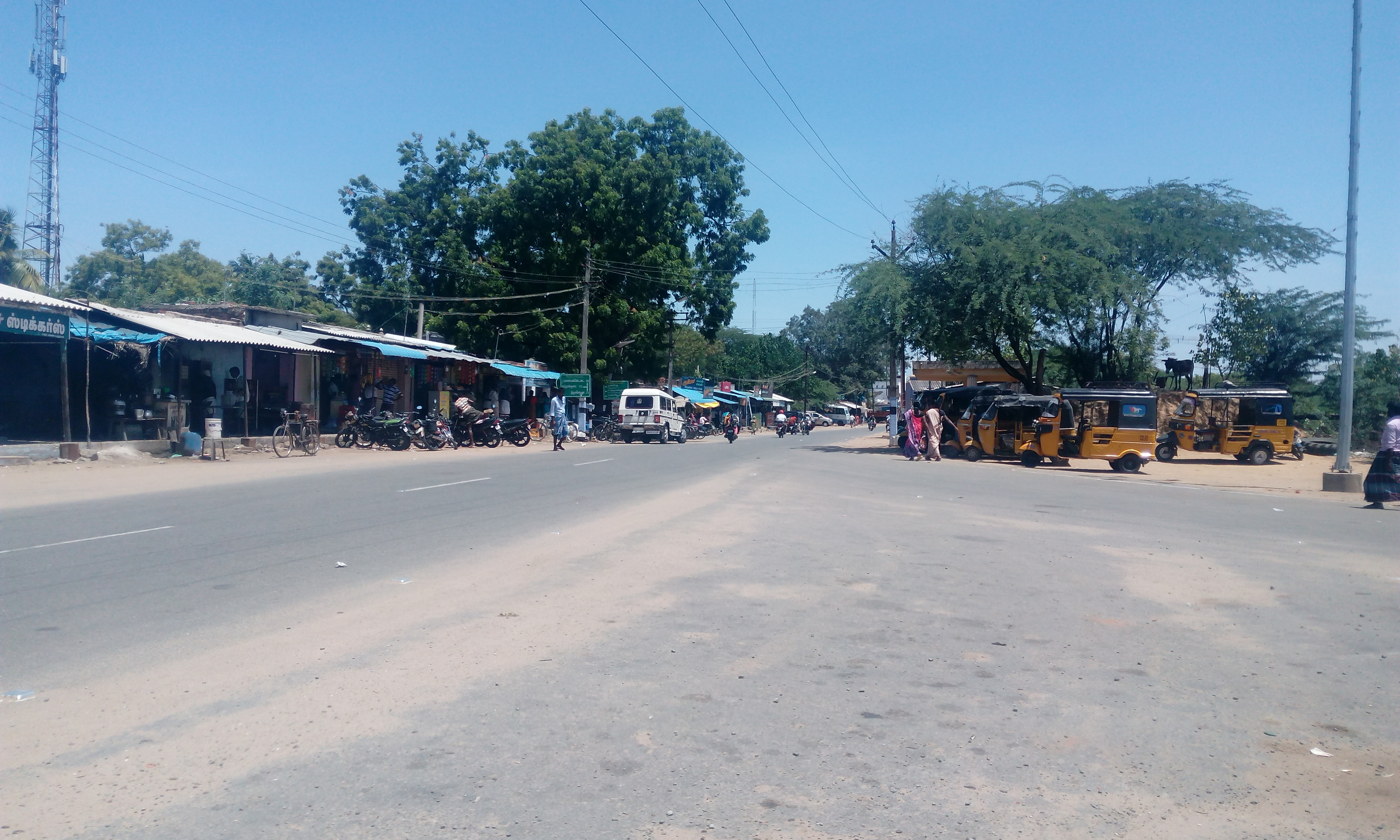 Alwarthirunagiri Main road